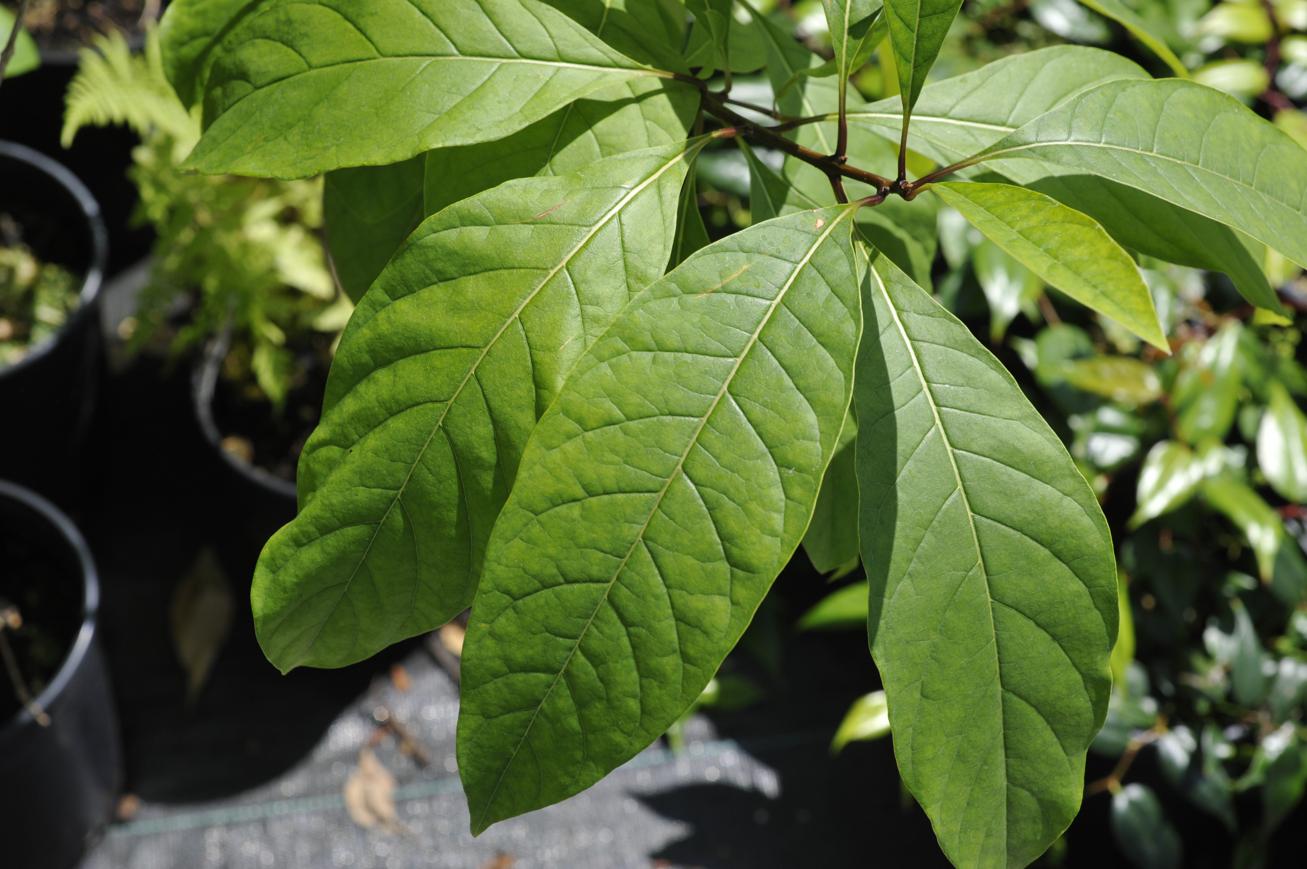 The leaves of Chionanthus virginicus (White Fringetree)